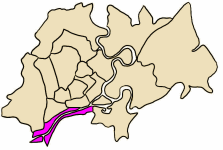 position of district 8 in an outline of the core area of HCMC (Ho Chi Minh City, Vietnam) - ISO code VN-F-HC. Keywords: map, outline, city, Ho Chi Minh City, HCMC, HCM, district 8, quan 8.